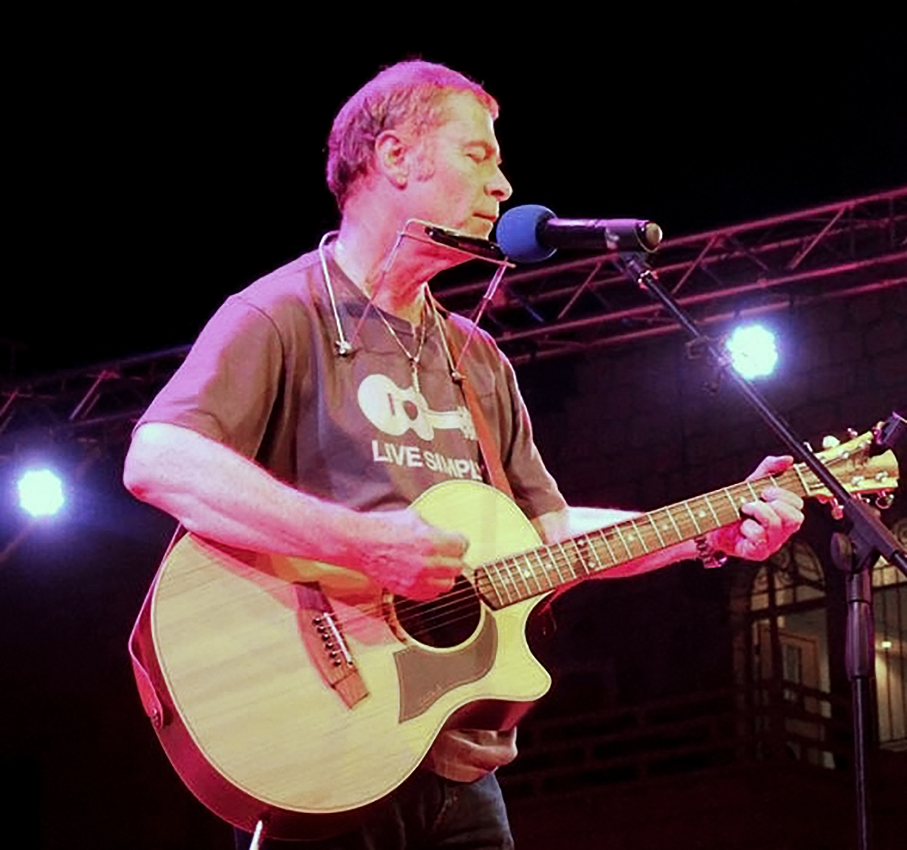 Garth Hewitt, sound checking at the Bet Lahem Live Festival, Star Street, Bethlehem, 15 June 2013.